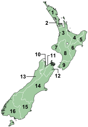 vector map of local government regions of New Zealand. Based on Image:NZ_Regions.svg by Ozhiker 1. Northland Region 2. Auckland Region 3. Waikato Region 4. Bay of Plenty Region 5. Gisborne Region 6. Hawke's Bay Region 7. Taranaki Region 8. Manawatu-Wanganui Region 9. Wellington Region 10. Tasman Region 11. Nelson Region 12. Marlborough Region 13. West Coast Region 14. Canterbury Region 15. Otago Region 16. Southland Region